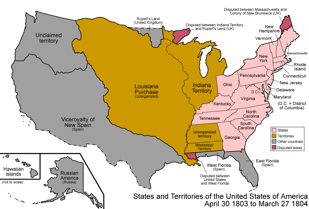 Map of the states and territories of the United States as it was from April 1803 to March 1804. On April 30 1803, Louisiana was purchased from France, and a dispute arose if it included a portion of West Florida. On March 27 1804, the lands previously ceded by Georgia were added to Mississippi Territory.